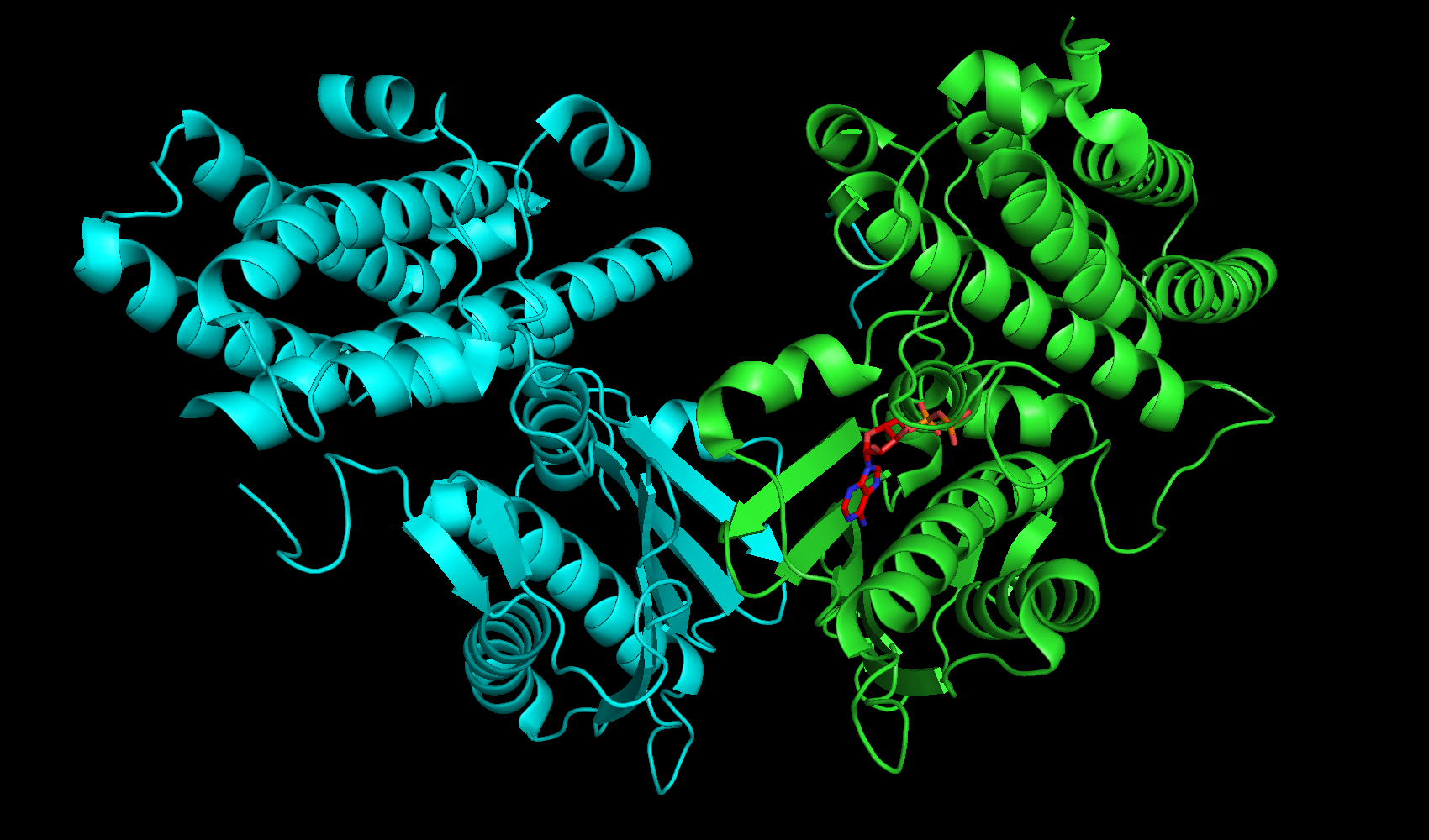 The fourth isozyme of pyruvate dehydrogenase kinase with a bound ADP molecule in the active site